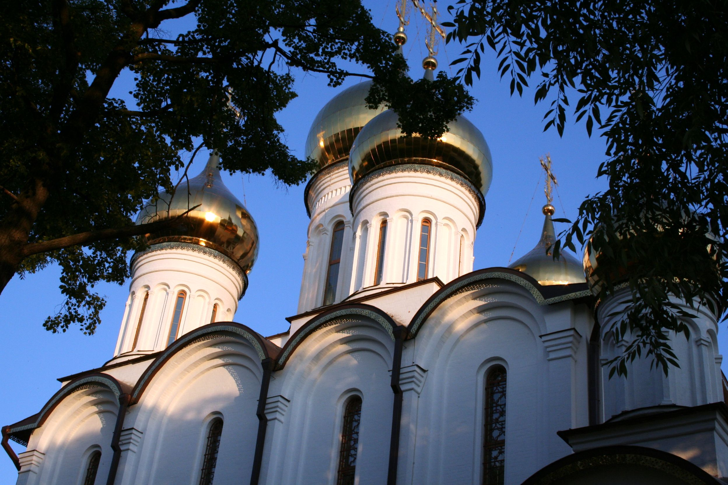 Domes of the Nikolsky Cathedral in Pereslavl-Zalessky.